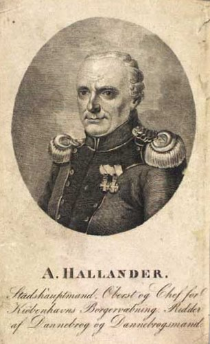 Andreas Hallander (1755-1828), Danish architect